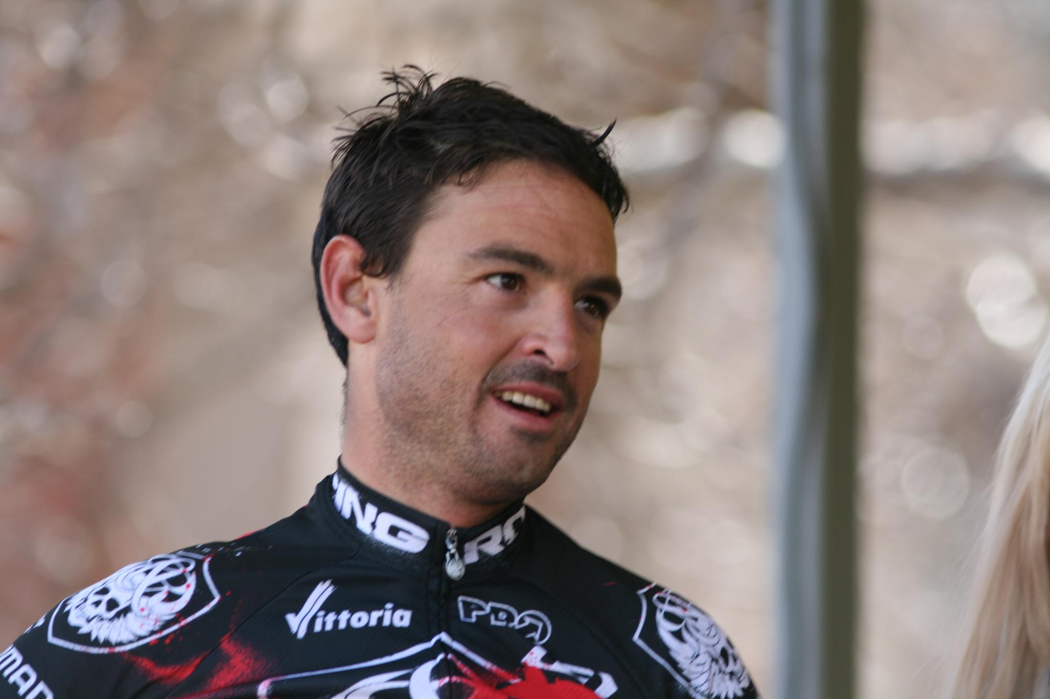 Francisco Mancebo of Rock Racing wore the yellow jersey in Stage 2 of the Tour of California 2009 but gave it up after placing 27th in Santa Cruz. He won King of the Mountain (Green Jersey and 2 smooches from the podium girls) and the Herbalife Spring Jersey (red jersey and two more smooches from the pretty girls).